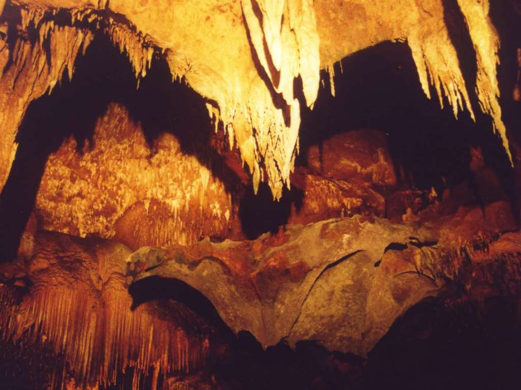 Khao Binn cave, Ratchaburi province, Thailand In the bottom a stone shaped like a flying duck can be imagined, after which the cave is named Photo taken on July 13 2003 by User:Ahoerstemeier